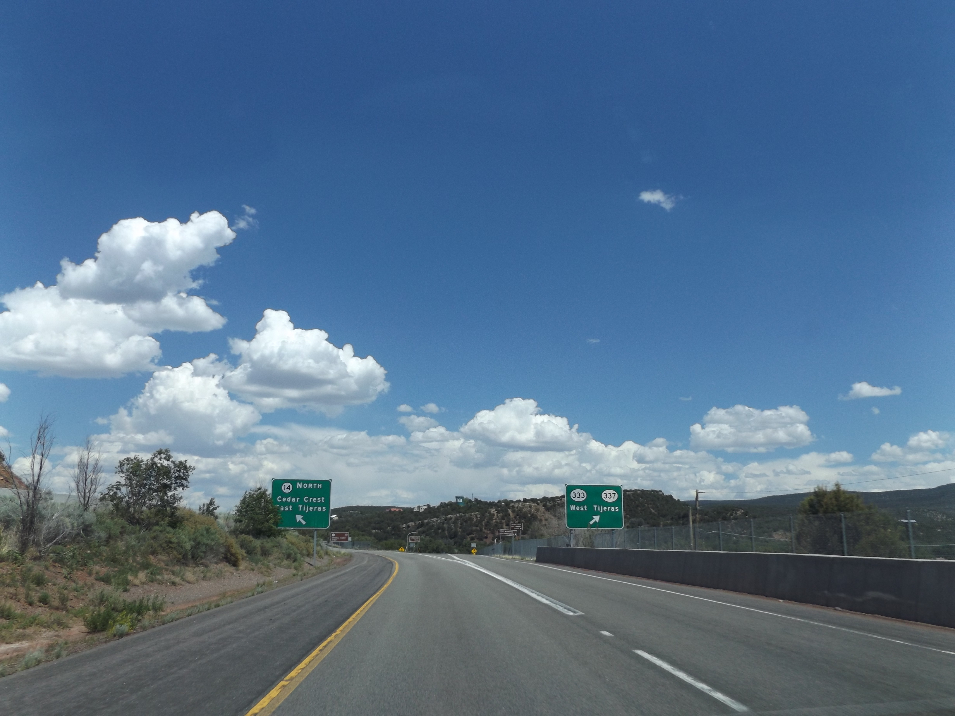 New Mexico State Road 333 (NM 333) near junction with NM 14 and NM 337